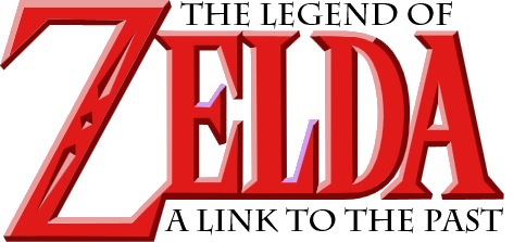 Logotype of The Legend of Zelda: A Link to the Past.